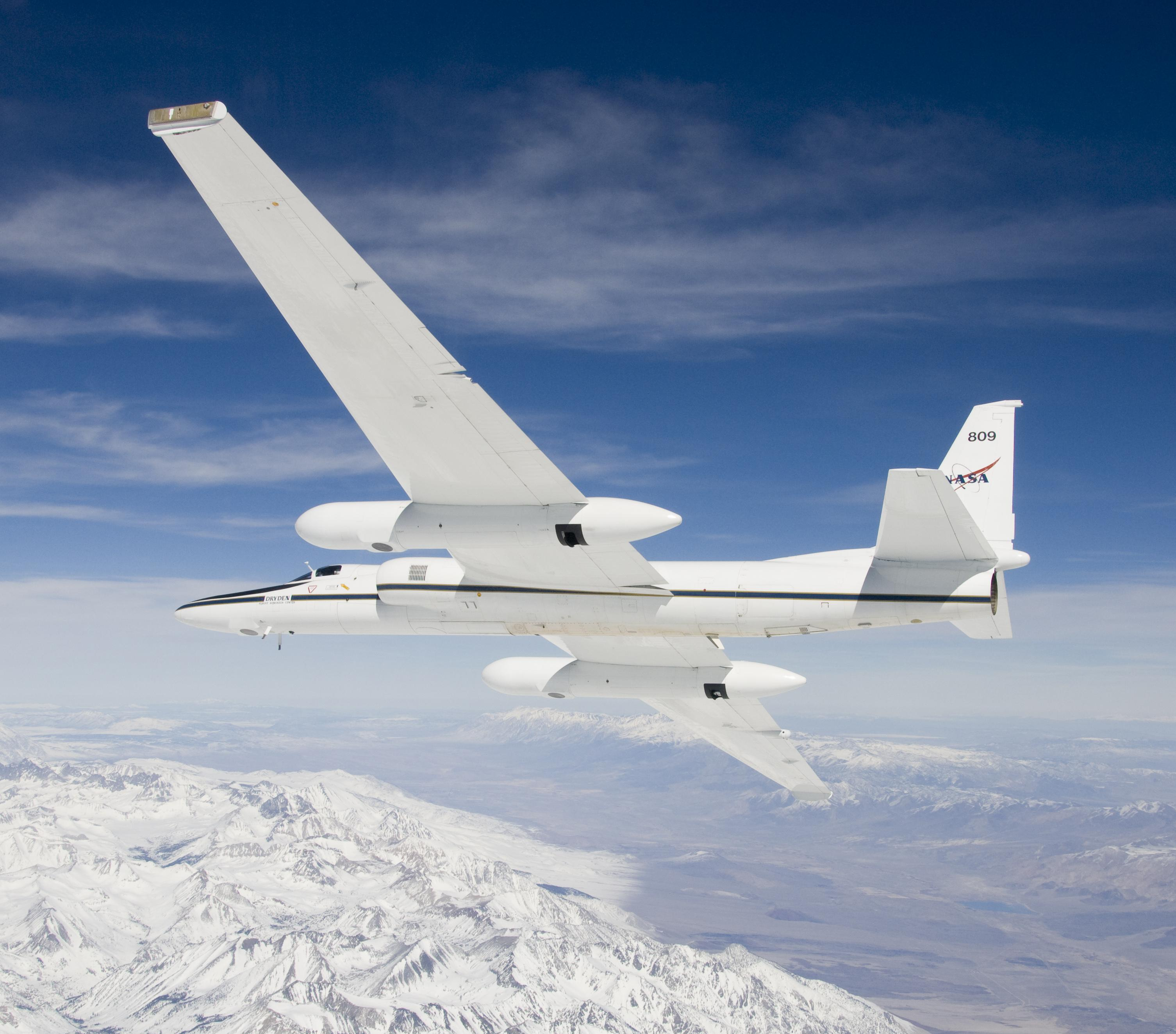 One of NASA's ER-2 high-altitude Earth science aircraft banks away from the photo chase plane during a flight over a southern Sierra Nevada snowscape. NASA's Dryden Flight Research Center operates two of the Lockheed-built aircraft on a wide variety of environmental science, atmospheric sampling and satellite data verification missions.